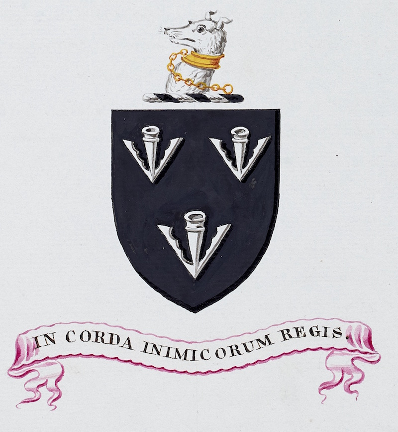 Forrestal Irish Crest